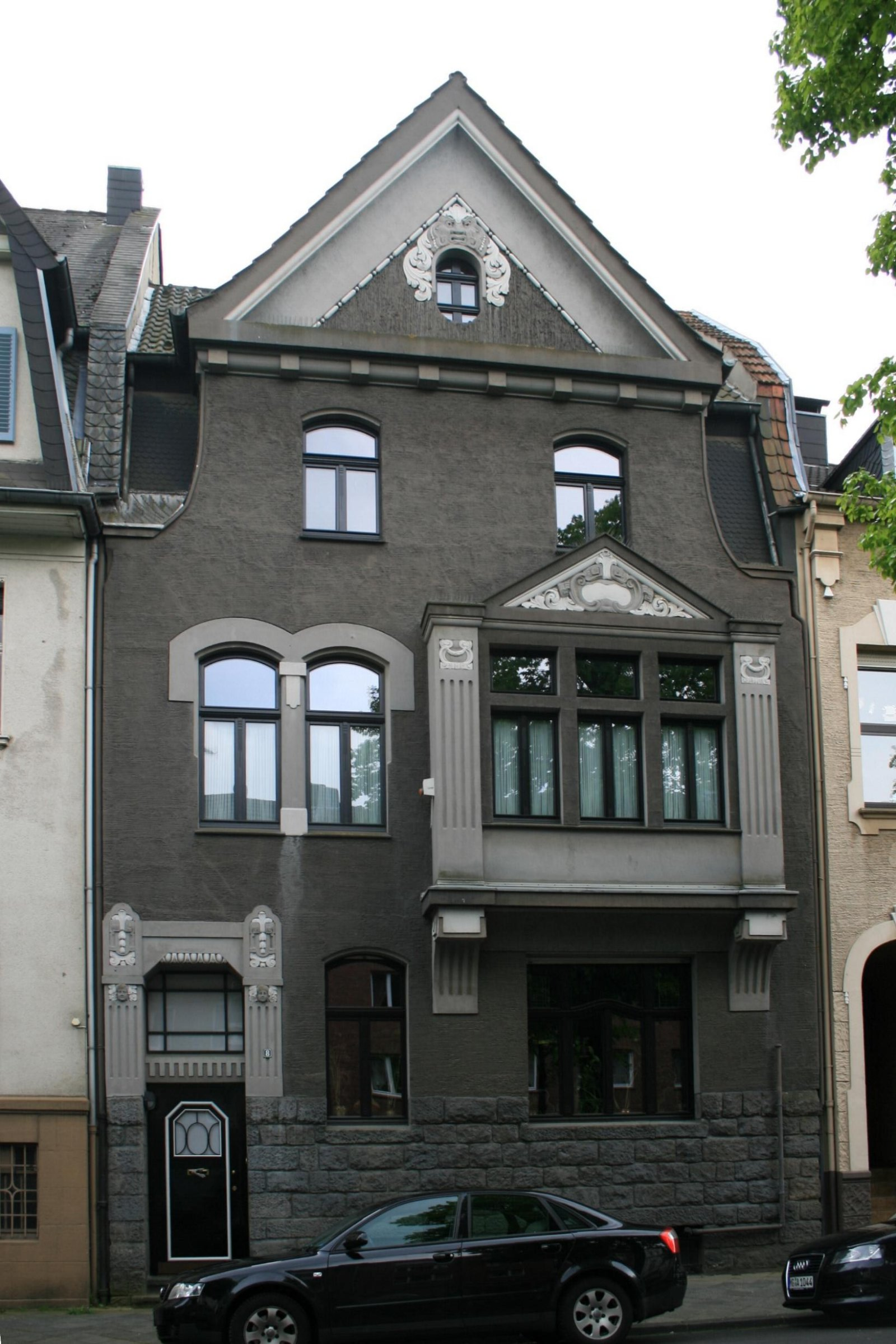 Cultural heritage monument No. F 021 in Mönchengladbach